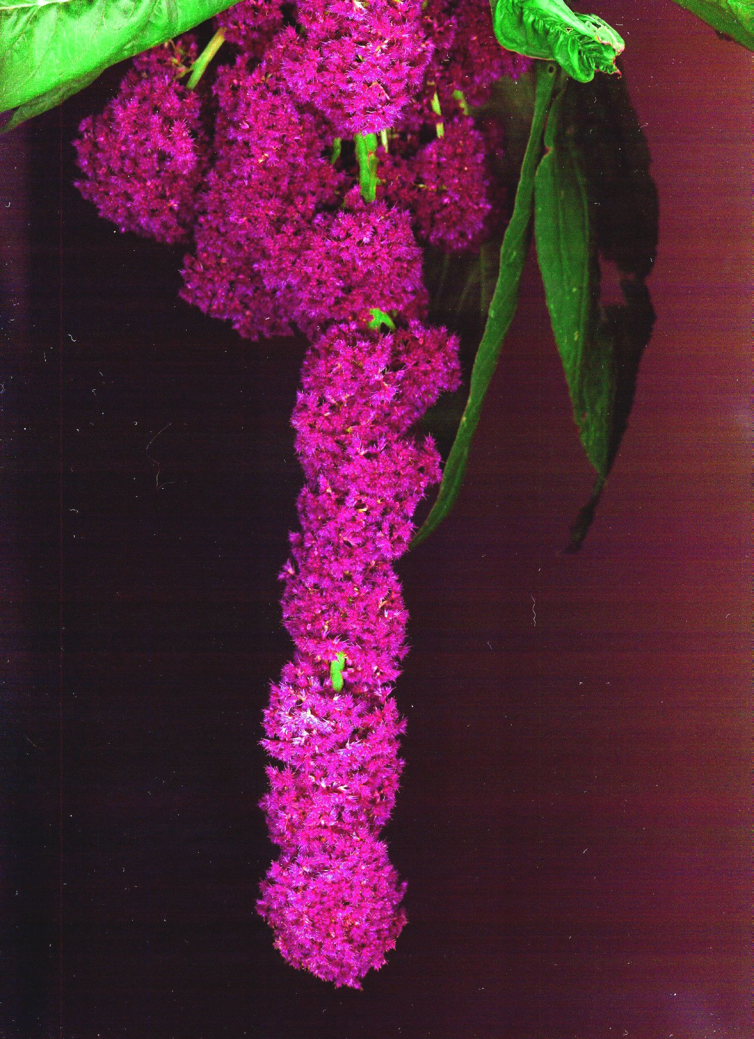 A reverse image presenting a hanging amaranth blossom